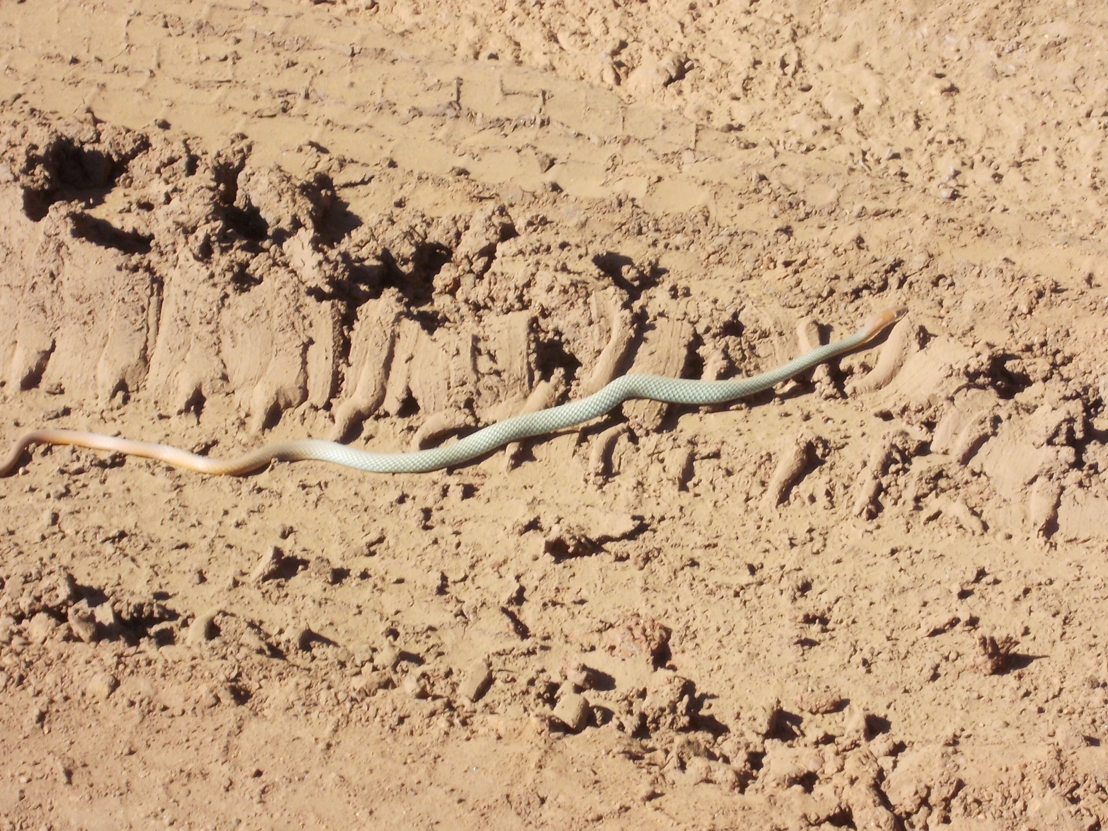 A yellow faced whip snake at the Brockman 4 mine, Western Australia.